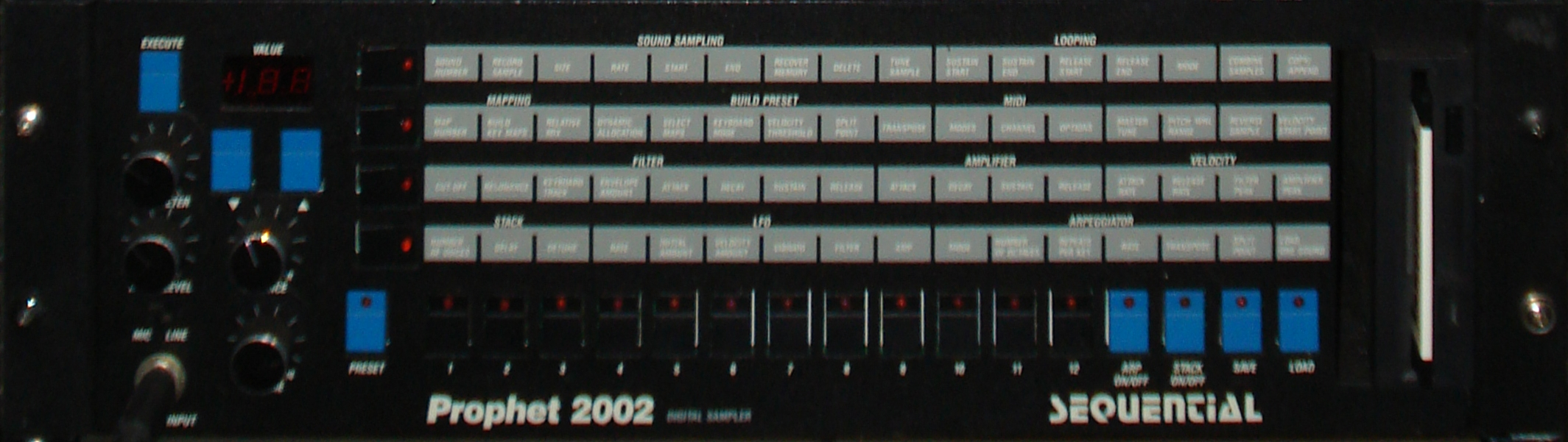 SCI Prophet 2002 (rack mount version of Prophet 2000 sampler) Shawn Rudiman's Studio, Pittsburgh, PA